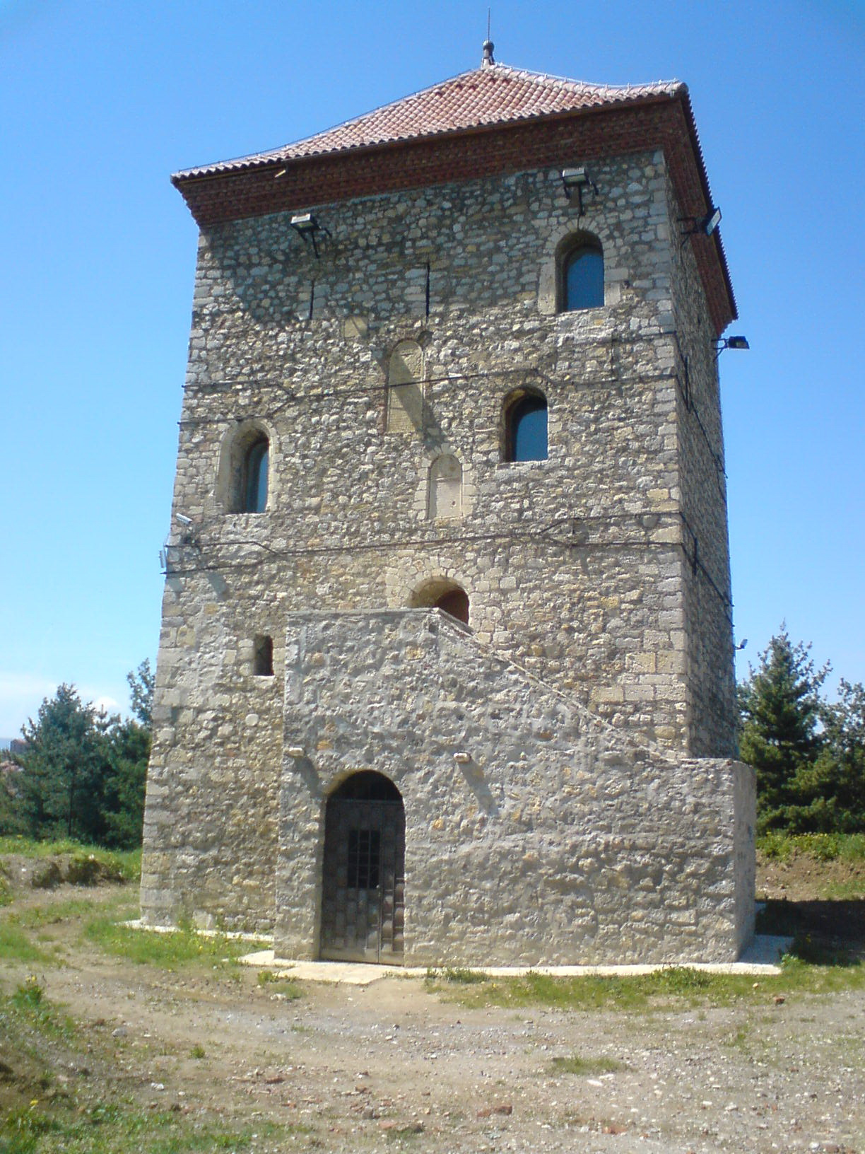 Built in spring 1813, next to road to Šabac, at the edge of Klićevac hill. For the purpose of armory, it was built by Jakov Nenadović and his son Jevrem. Construction material was stone from an older Vitkovica tower. Later, Turks turned it to a prison.